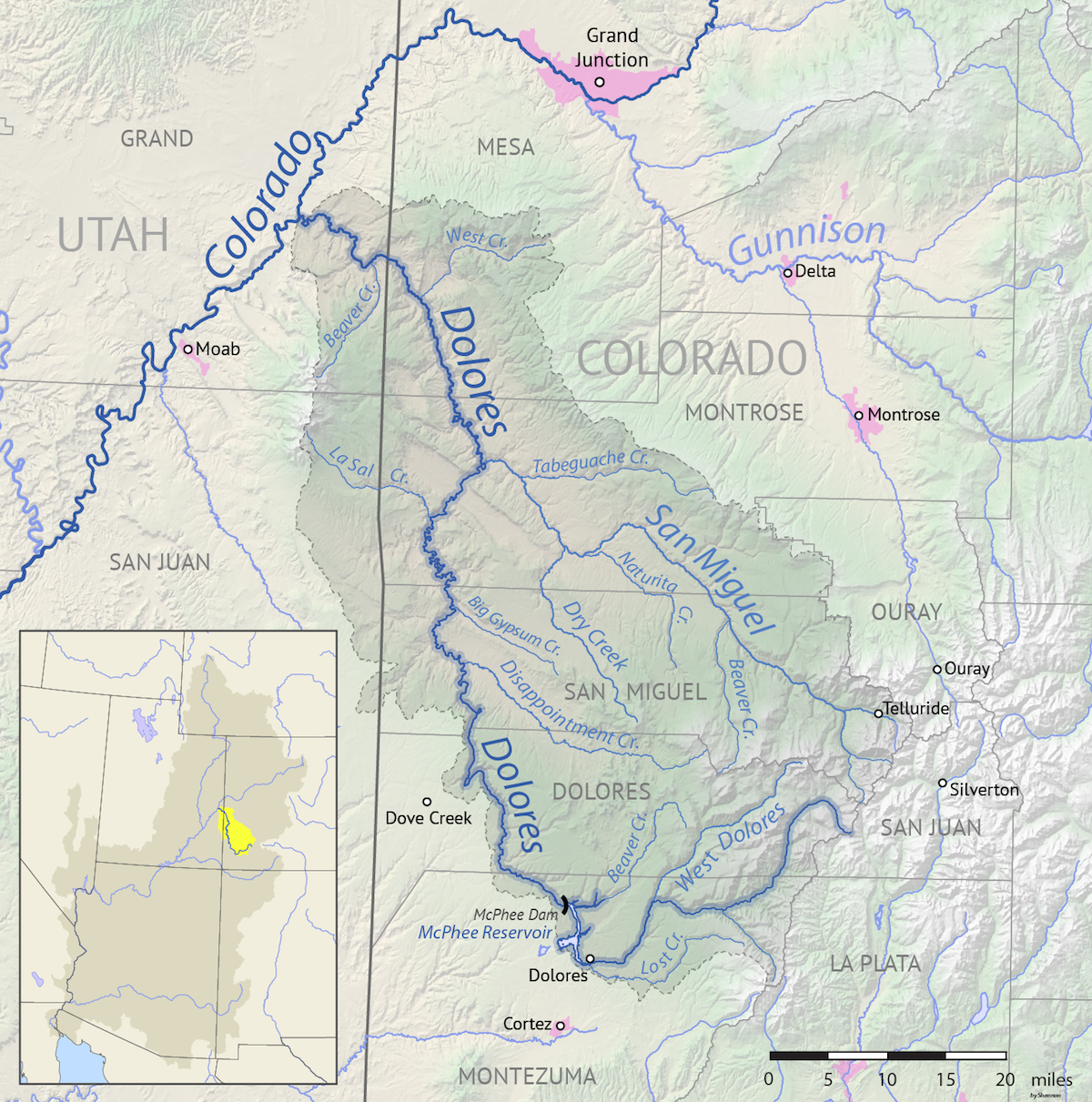 Map of the Dolores River drainage basin in Colorado and Utah, USA. Made using USGS data.